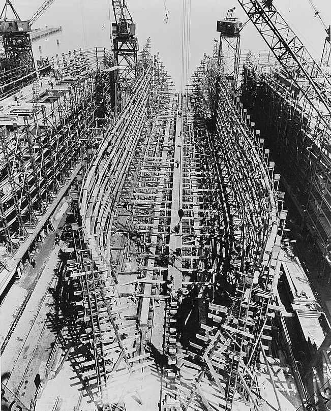 Construction of a Liberty ship at Bethlehem-Fairfield Shipyards Inc., Baltimore, Maryland (USA) in March/April 1943: laying of the keel plates on the second day of construction. Original caption:” Bethlehem Fairfield shipyards, near Baltimore, Maryland. Construction of a Liberty ship. Laying of the keelplates to which will be attached the vertical keel.”